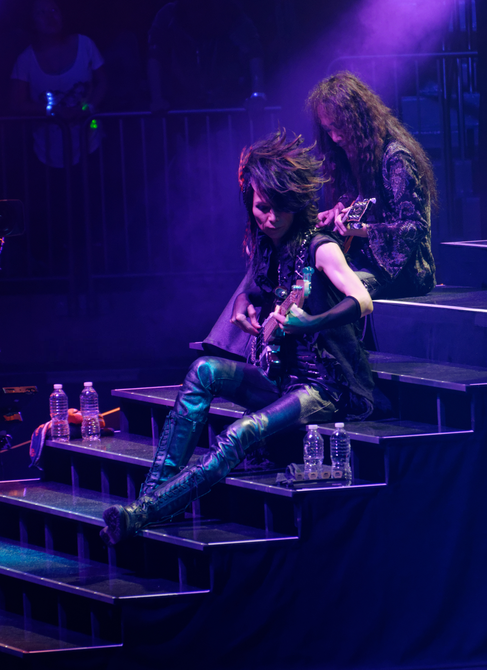 X Japan performing live at Madison Square Garden in New York City on Saturday October 11th, 2014. X Japan is Japan's biggest and most famous rock band, and this was their debut performance at the historic NYC venue.